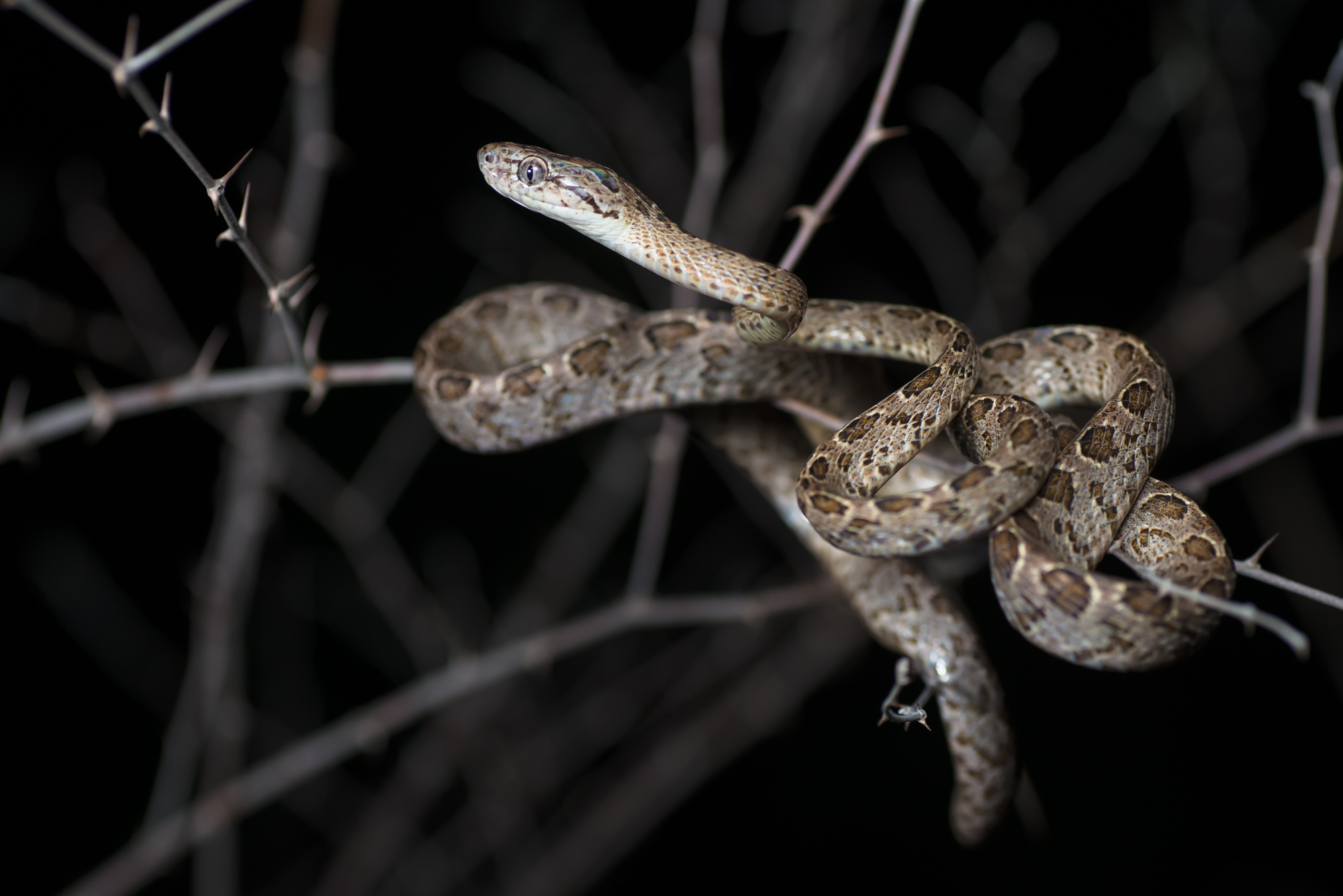 Boiga multomaculata, Many-spotted cat snake - Kaeng Krachan National Park. Photo by Thai National Parks